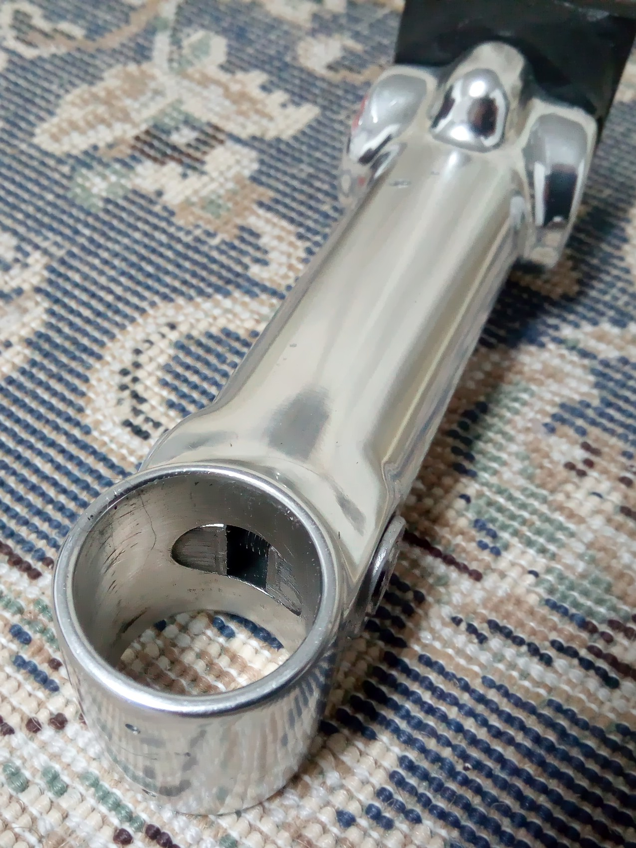 A-head handlebar holder with fixing system on the steering tube by means of an external wedge